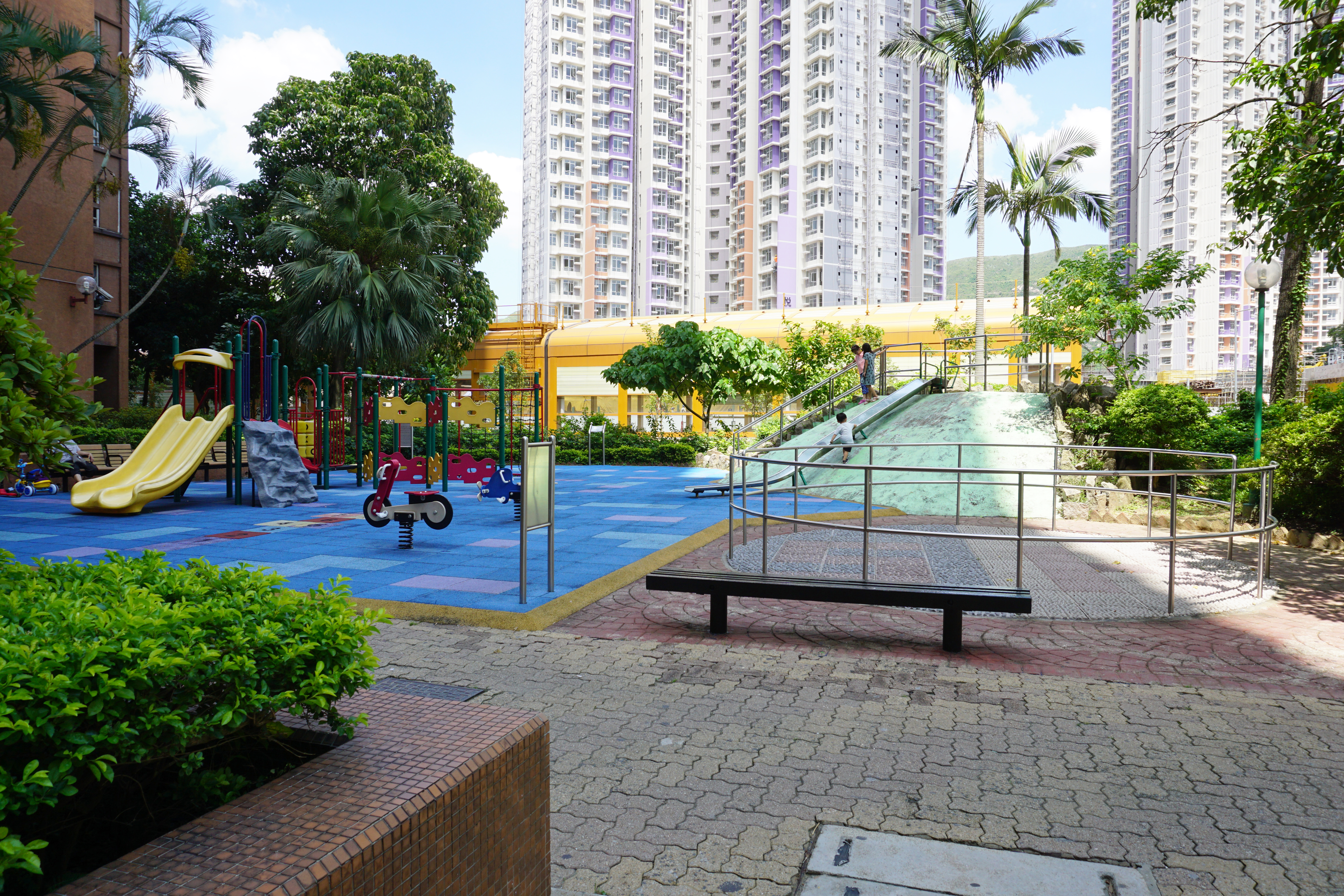 Siu Hong Court in Tuen Mun, Hong Kong.